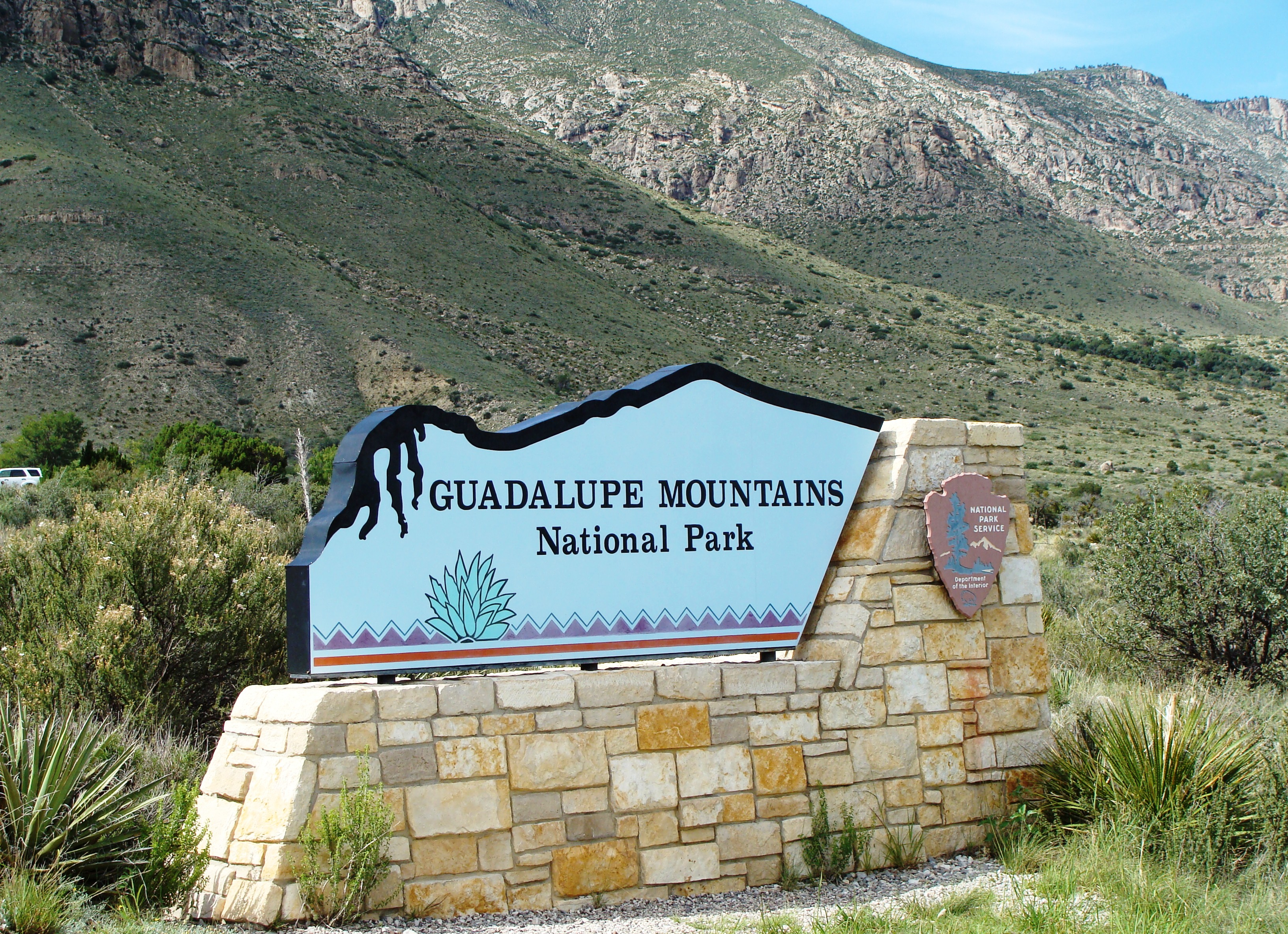 Sign at the entrance to Guadalupe Mountains National Park, Texas